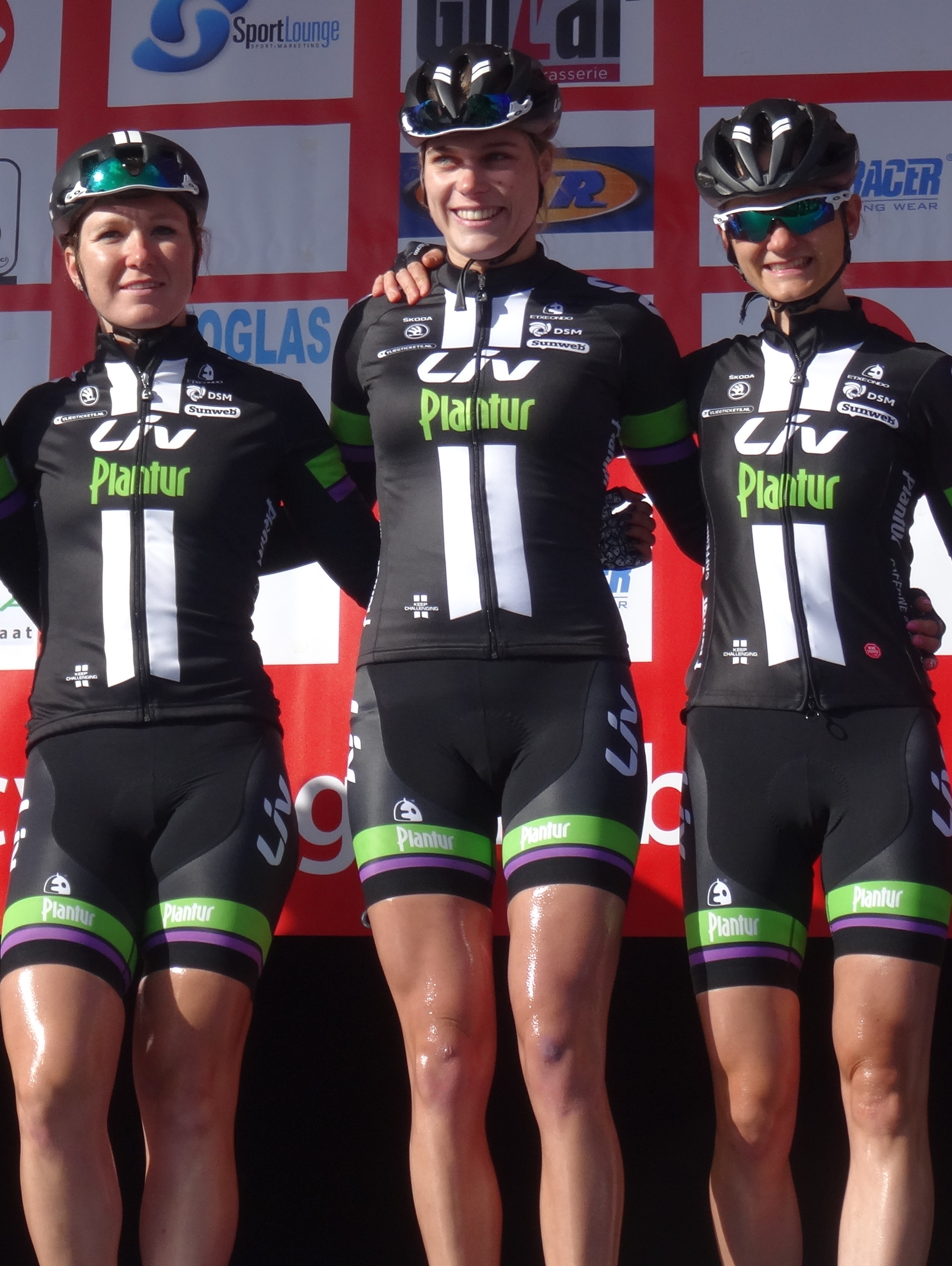 Departure, Wednesday 4th March, Le Samyn des Dames 2015, Quaregnon, Belgium